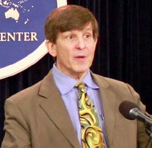 American historian Allan Lichtman, delivering a briefing on "Analysis of Obama's First State of the Union Address"